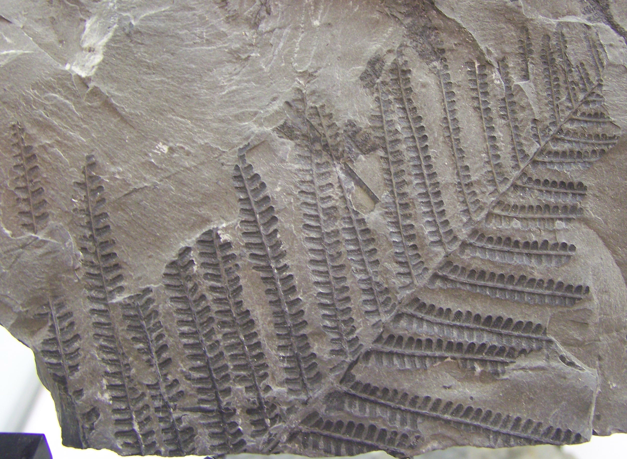 Fossil leaf of the fern Pecopteris arborescens from the Upper Carboniferous. The leaf is ca. 25 cm wide. Collection of the Universiteit Utrecht.